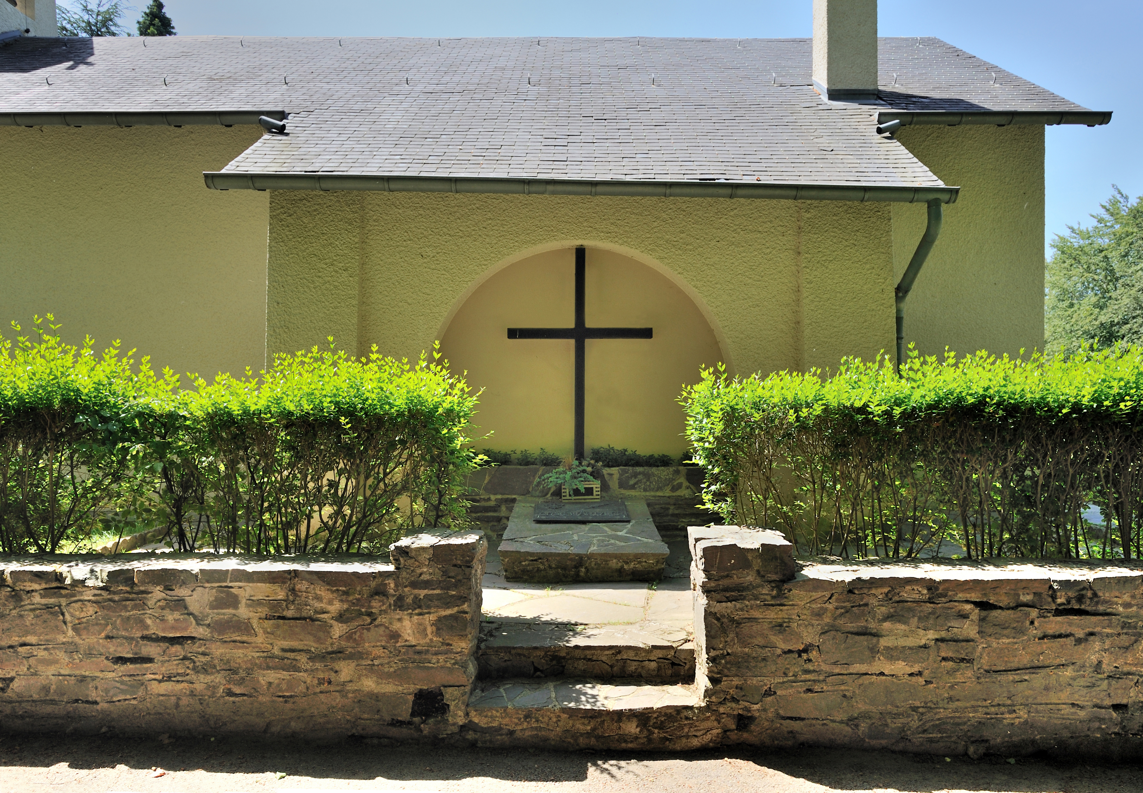 Neuhaeusgen, scouts' chapel: Memorial commemorating the scouts that lost leir lives as members of the resistance movement during World War II (1940-1945).